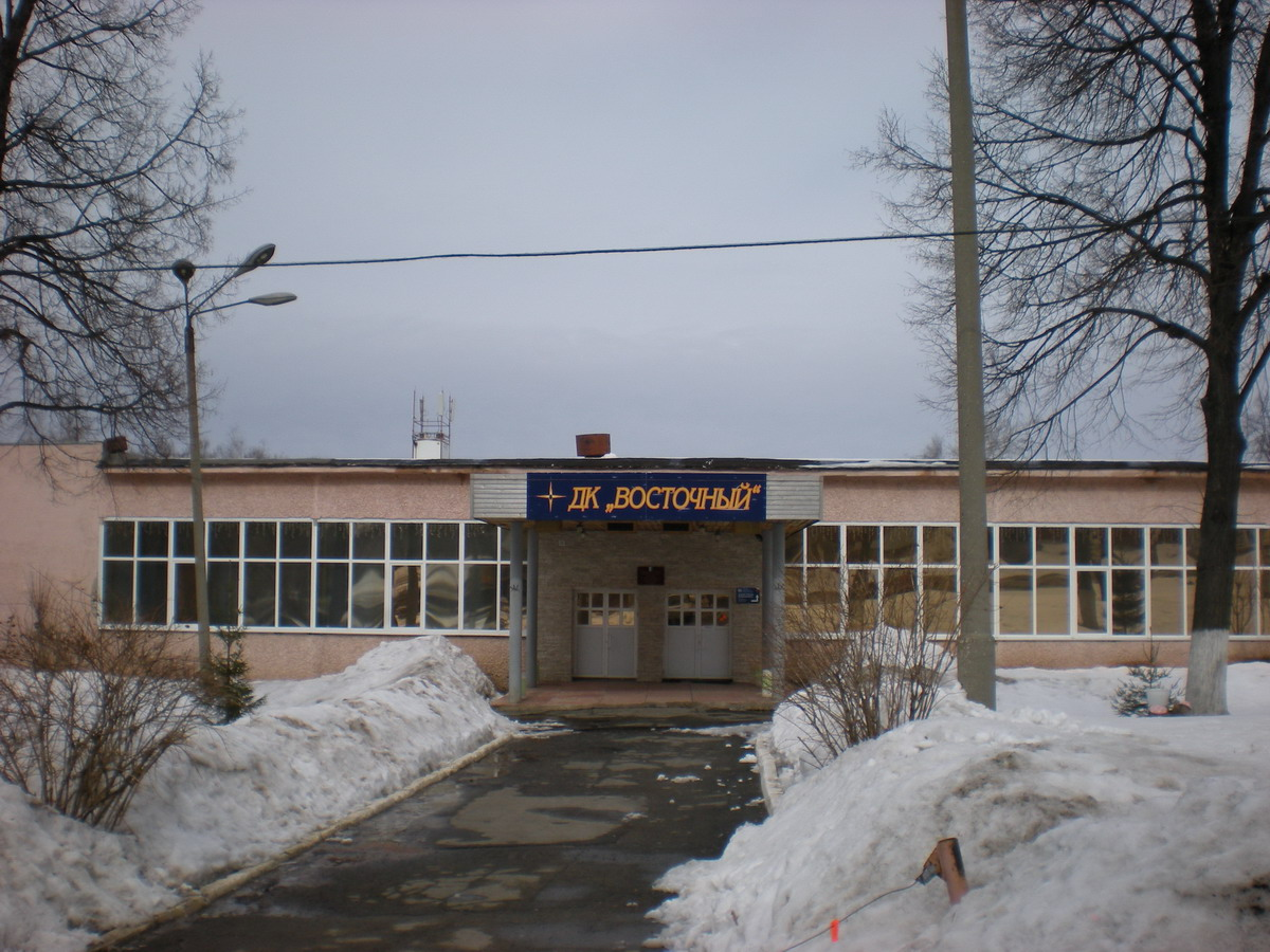 House of Culture "Vostochny" in Izhevsk (Udmurtia)Удмурт: "Восточной" культура юрт Ижын (Удмуртия)